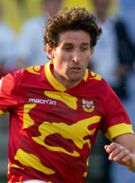 Mladen Kašćelan in action for FC Arsenal Tula